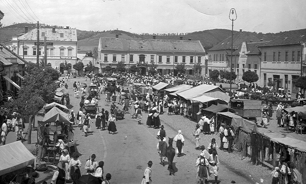 market in the main square of Hațeg/Hátszeg in 1915